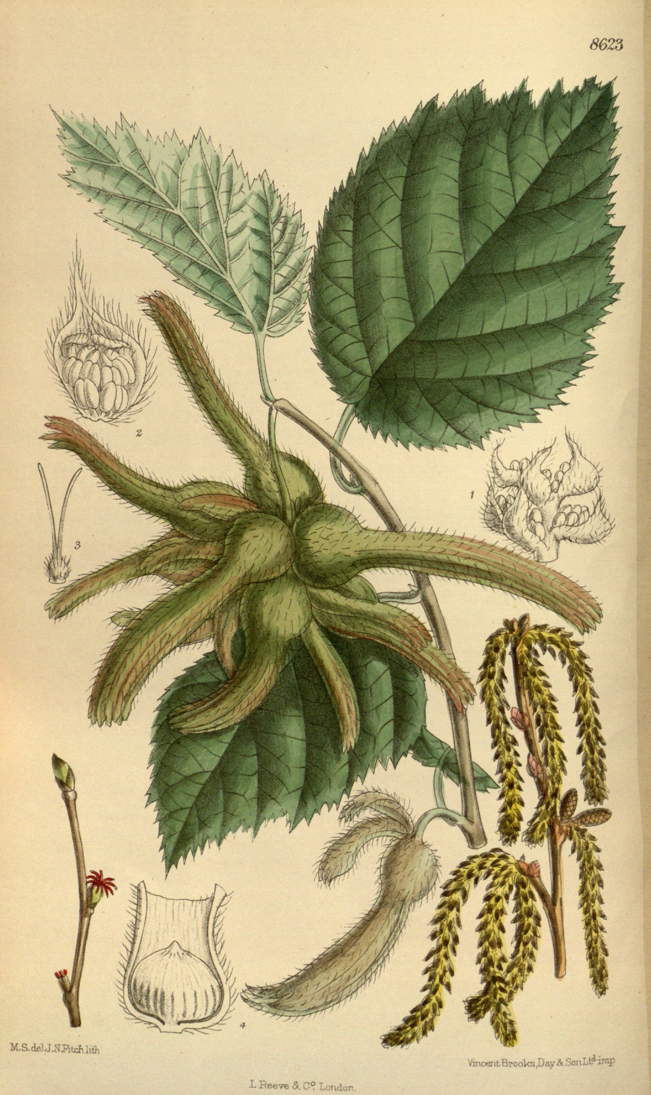 Corylus mandshurica (= Corylus sieboldiana var. mandshurica), Betulaceae